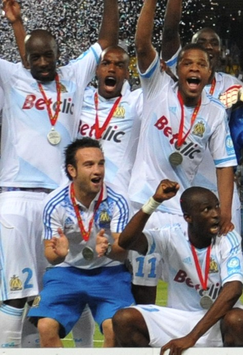 Up - left to right : Souleymane Diawara, Chris Gadi, Loïc Rémy. Down - left to right : Mathieu Valbuena, Stéphane Mbia.